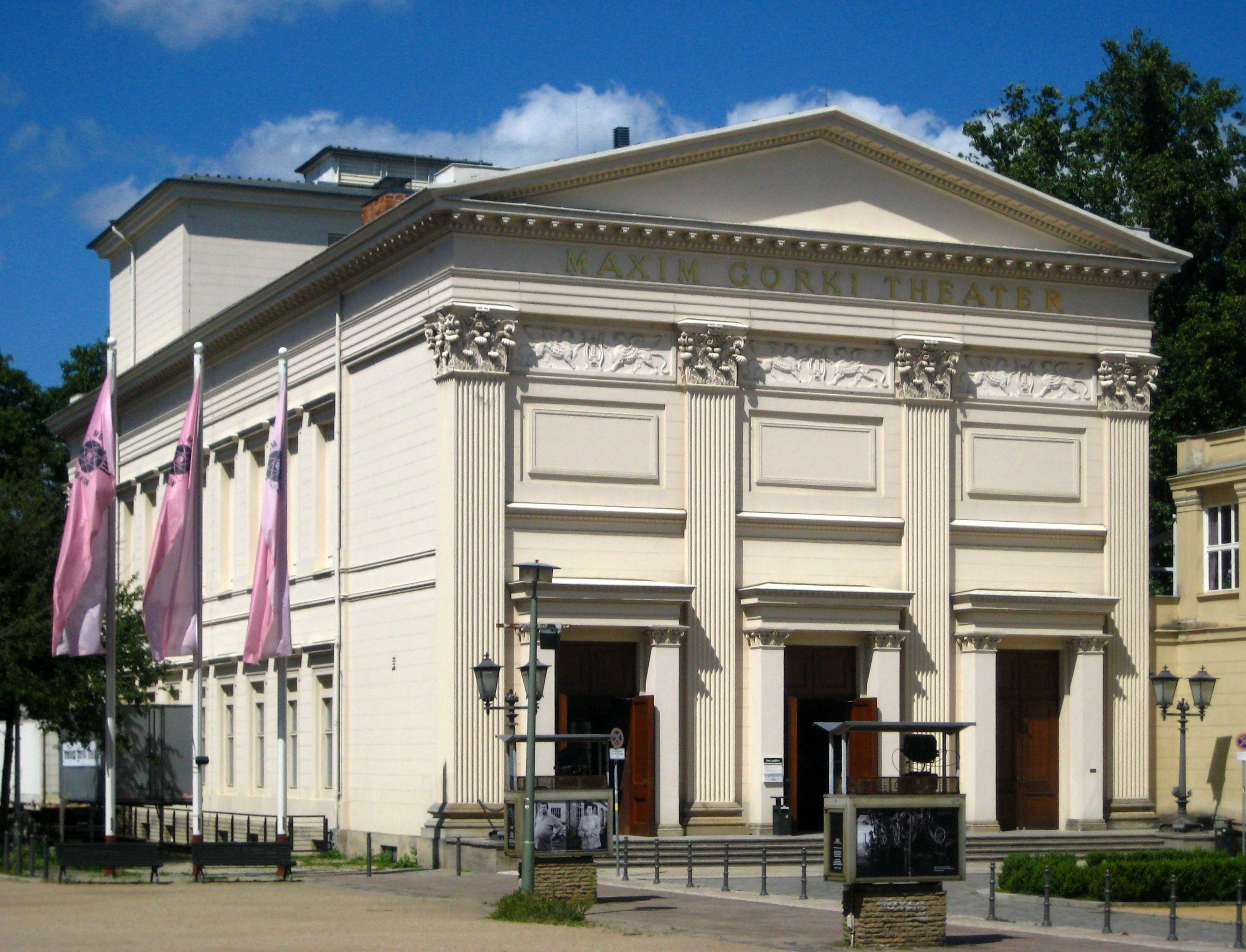 The "Maxim Gorki Theater", Am Festungsgraben in Berlin-Mitte; built 1825-1827 as "Singakademie" to a design by Carl Theodor Ottmer.